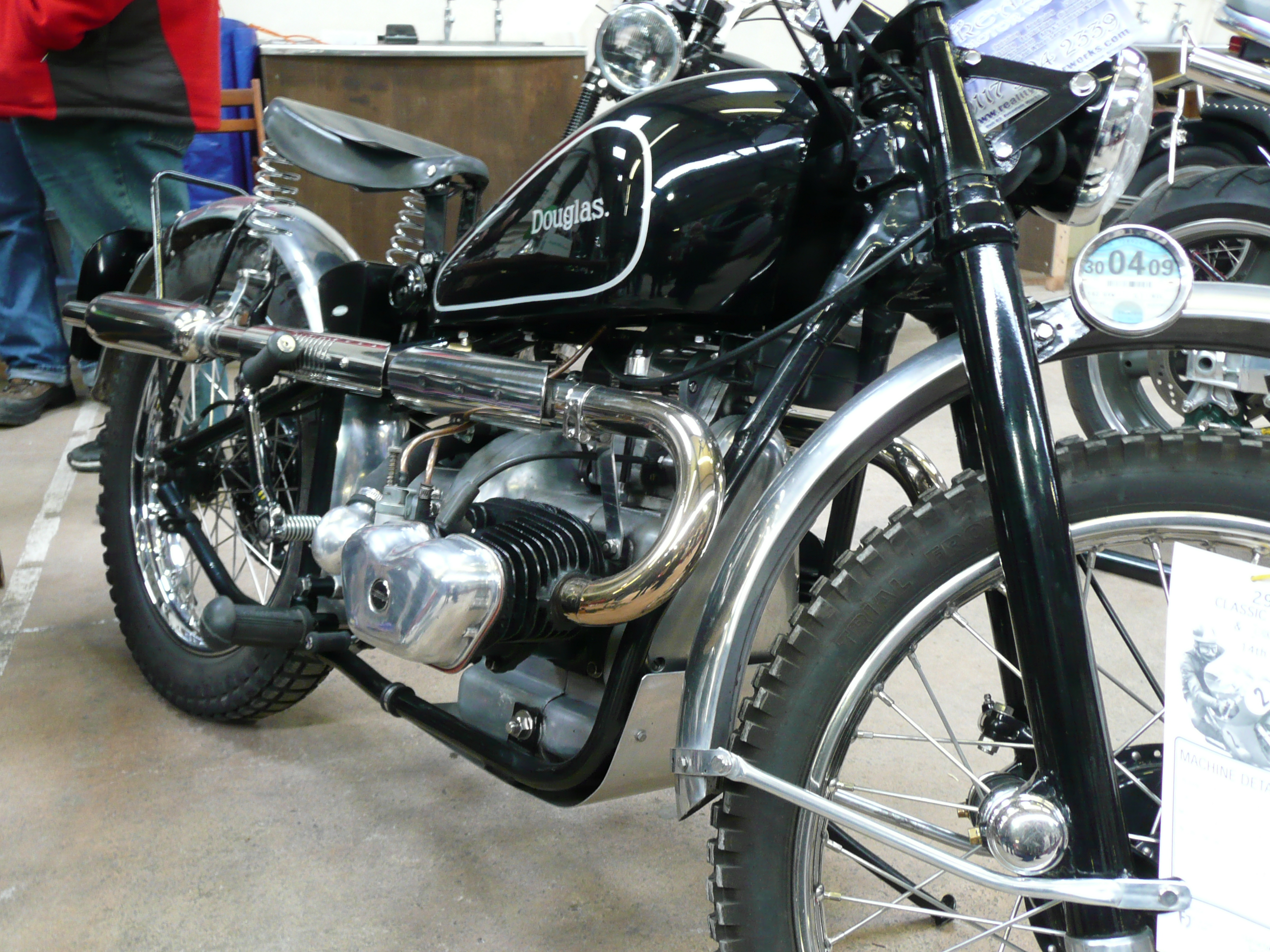 Douglas 350 Competition 1950